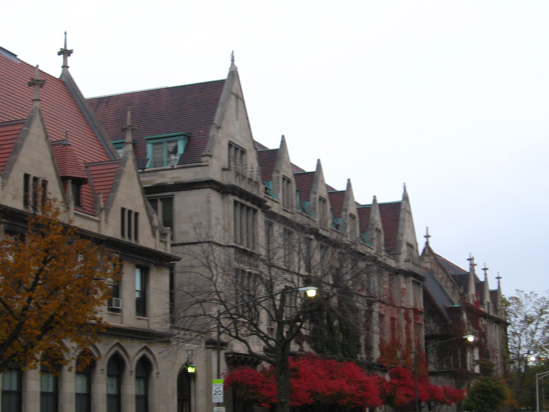 Lab Schools